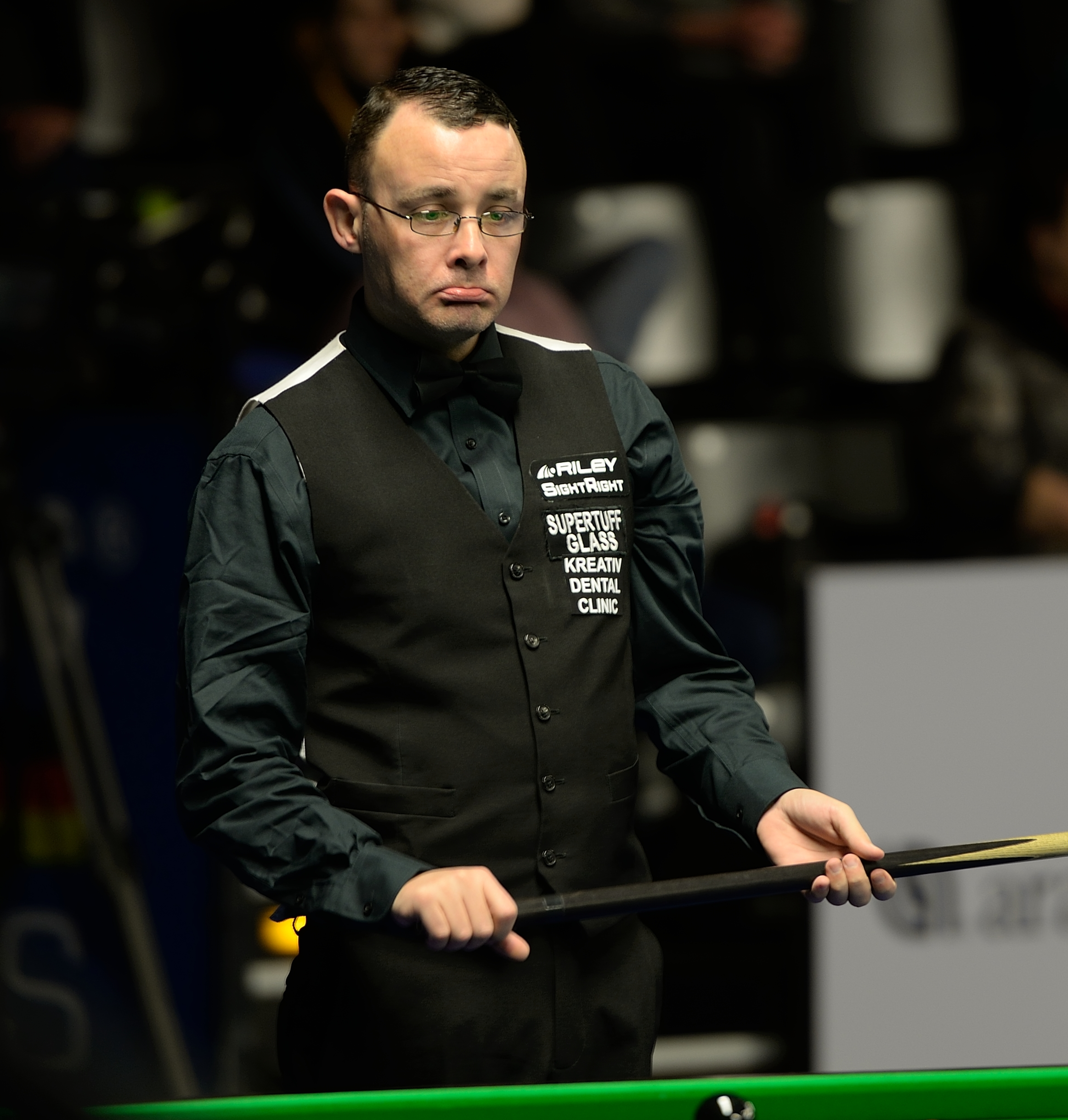 Picture taken in Berlin during the Snooker German Masters in 2015. Martin Gould.